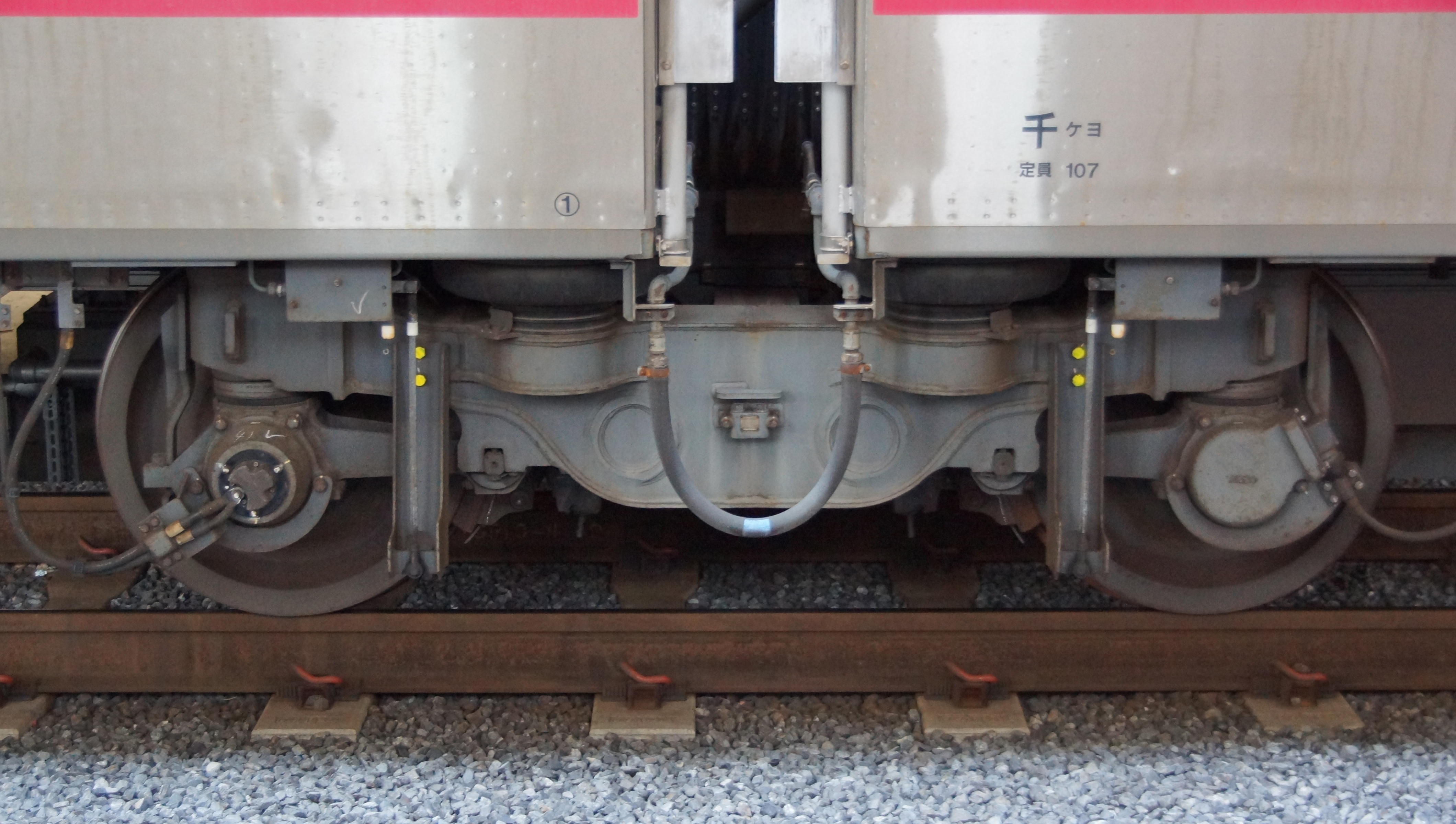 A DT73 motored shared (Jacobs) bogie on the JR East E331 series EMU set AK1